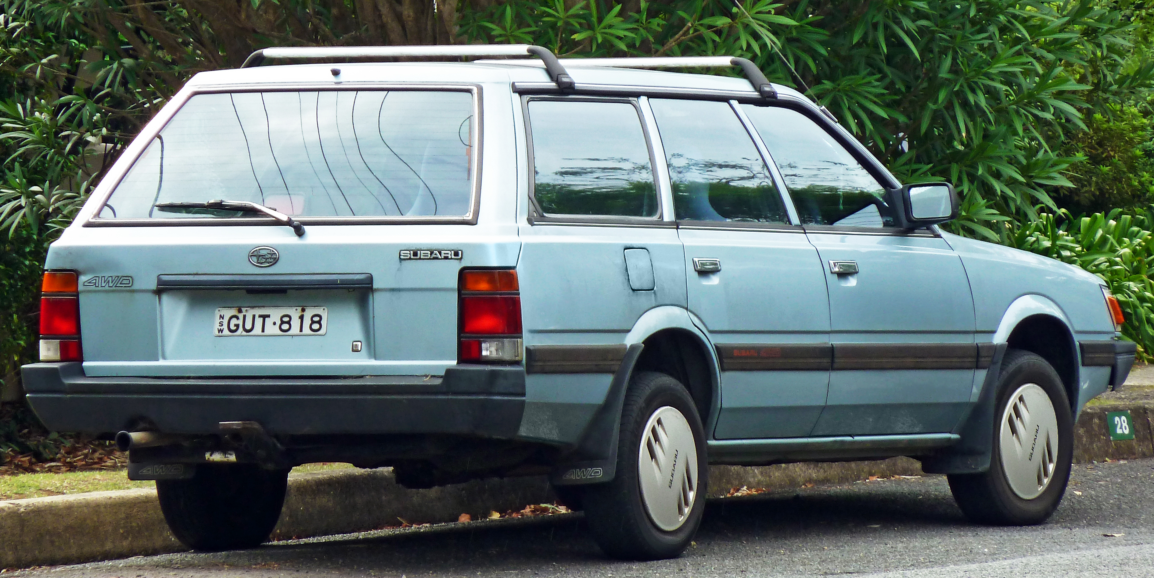 1989–1994 Subaru L Series station wagon. Photographed in Roseville, New South Wales, Australia.